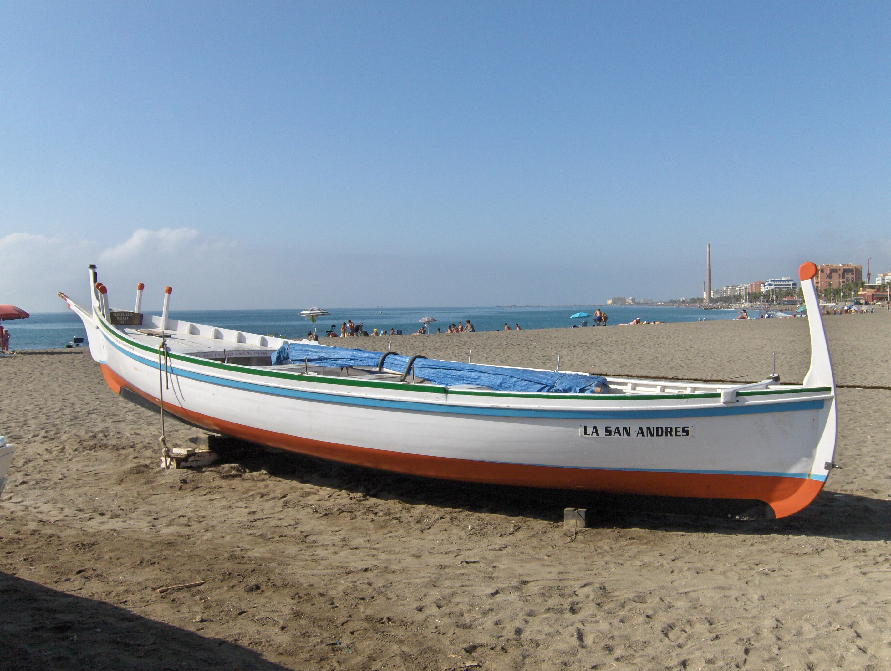 Jábega la San Andrés in Huelin Beach, Málaga.